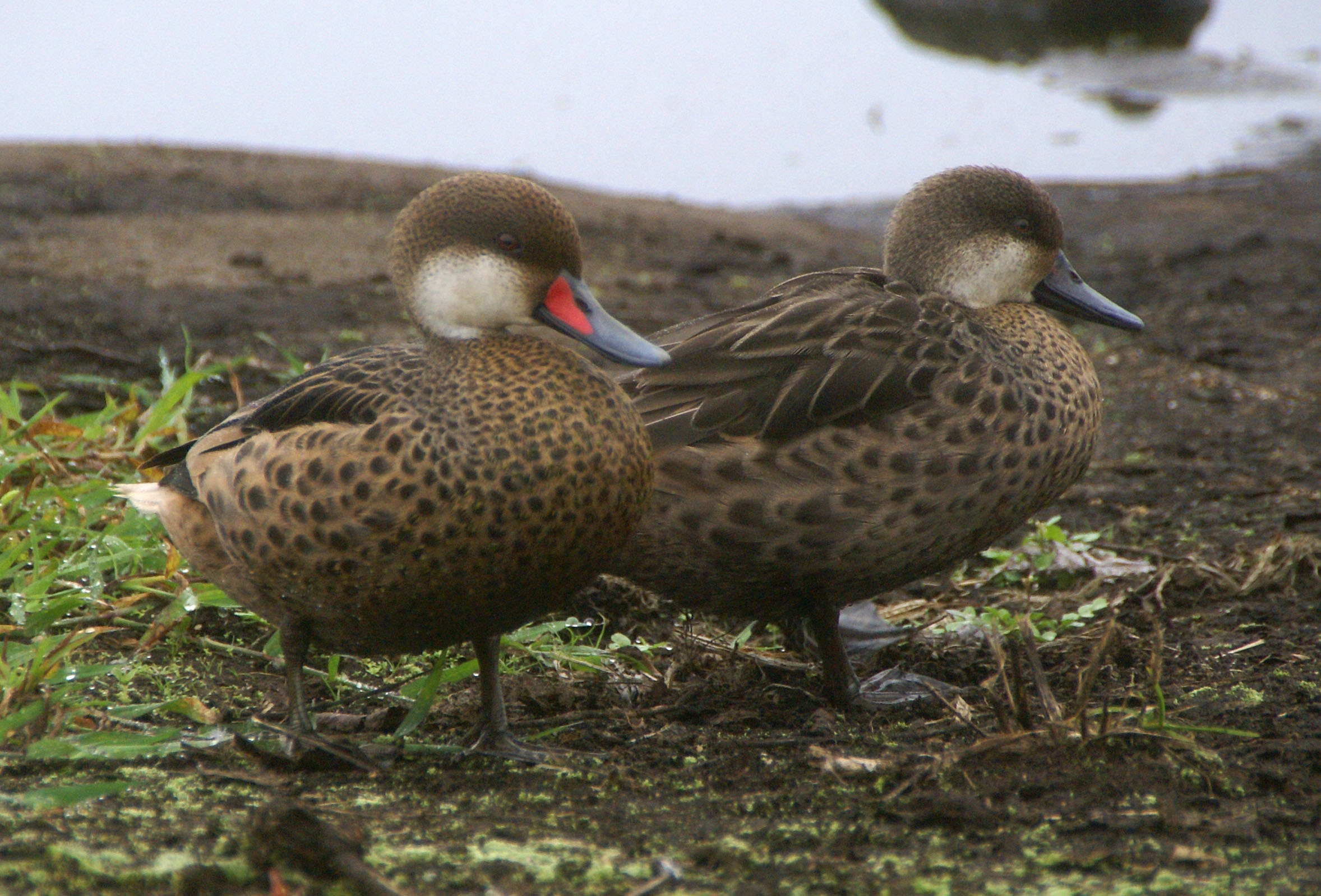 White cheeked Pintail or Bahama Pintail on the highlands of Santa Cruz, Galapagos Islands. The duck on the left with red on the base of its upper beak is an adult and the duck on the right with an all black beak is a juvenile.